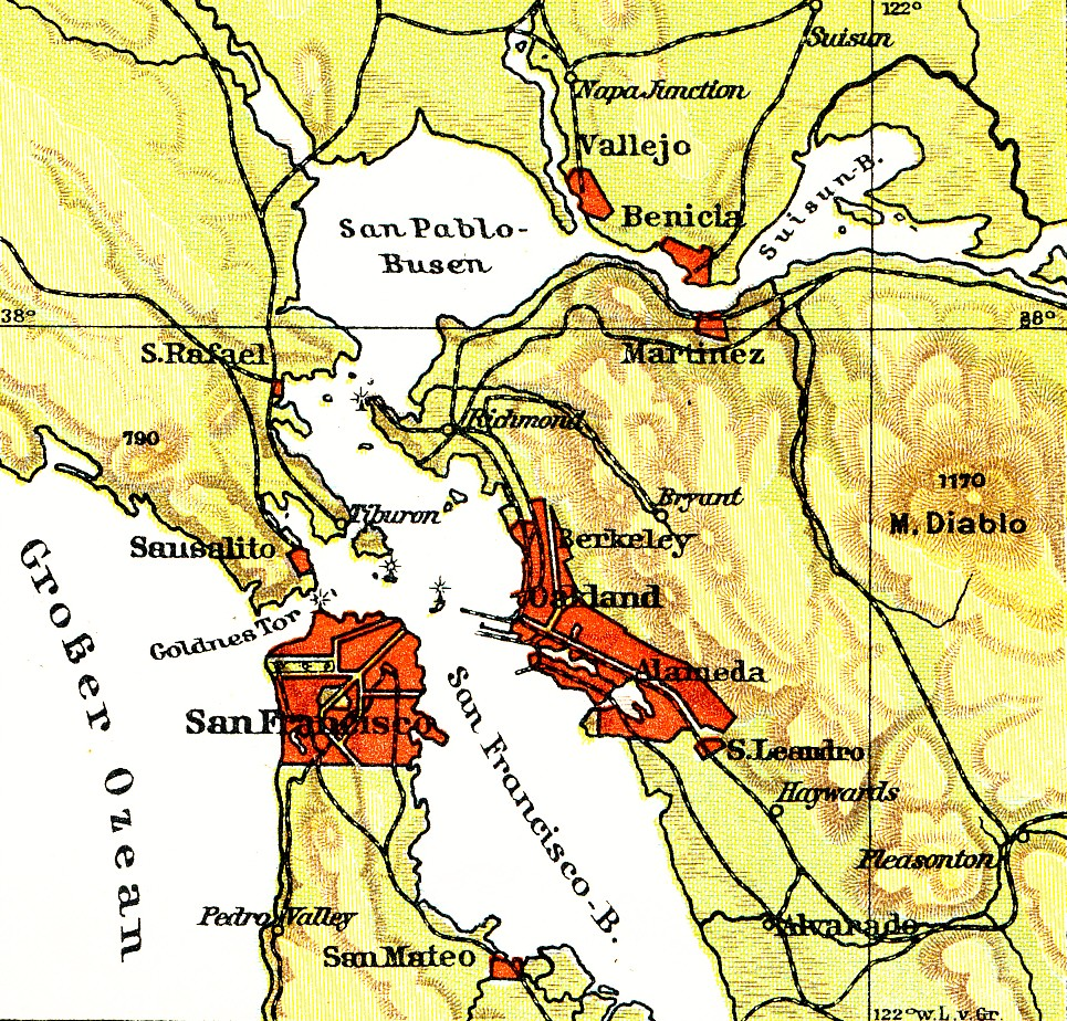 This is a part of an old atlas. It does not necessarily represent the current situation.